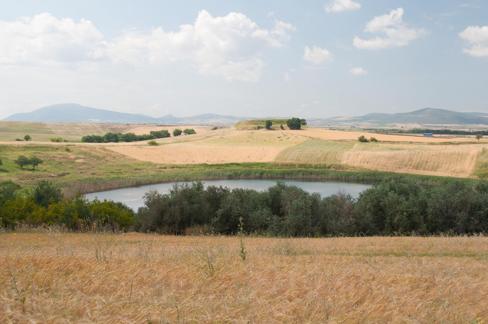 Zerelia lakes (view of the mound), Almyros plain, Magnesia, Greece